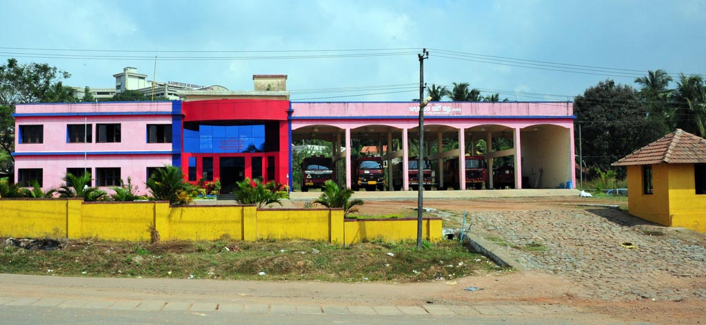 Fire station in Mangaladevi, Mangalore. Fire station in Mangaladevi, Mangalore.